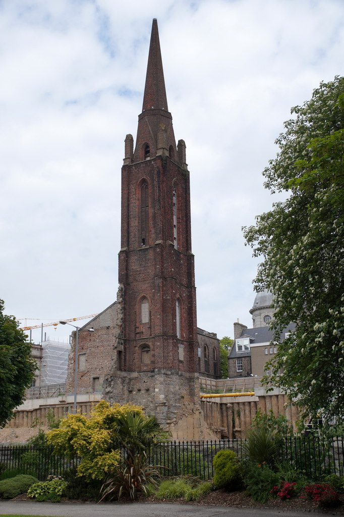 Spire of a former church beside Denburn Road, Aberdeen